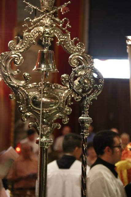 The Tintinnabulum, given in 1958 as one of the privileges that the church acquired when the church became a minor basilica.